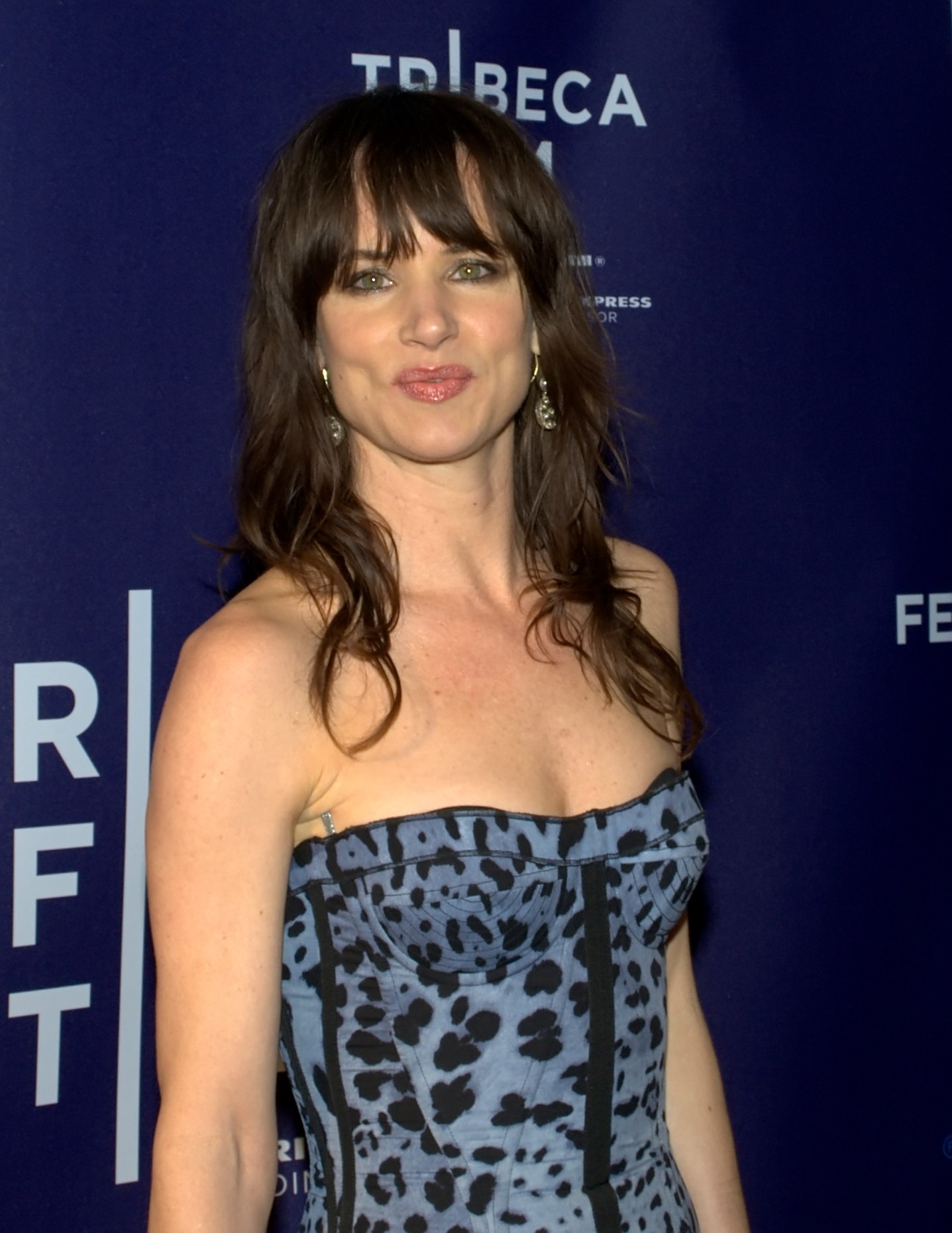 Juliette Lewis at Tribeca Film Festival 2010.